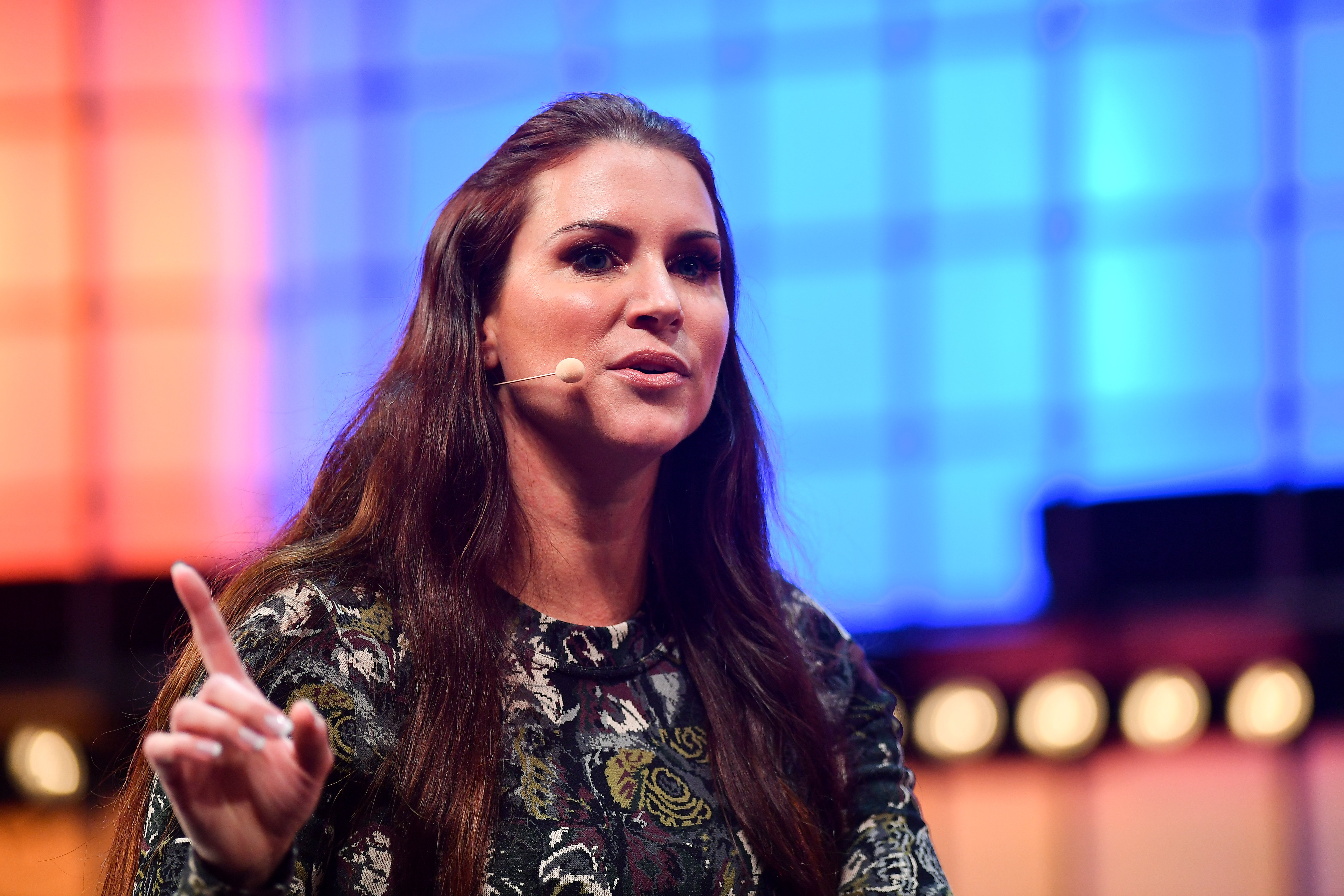 6 November 2018; Stephanie McMahon, WWE on Centre Stage during the opening day of Web Summit 2018 at the Altice Arena in Lisbon, Portugal. Photo by Seb Daly/Web Summit via Sportsfile